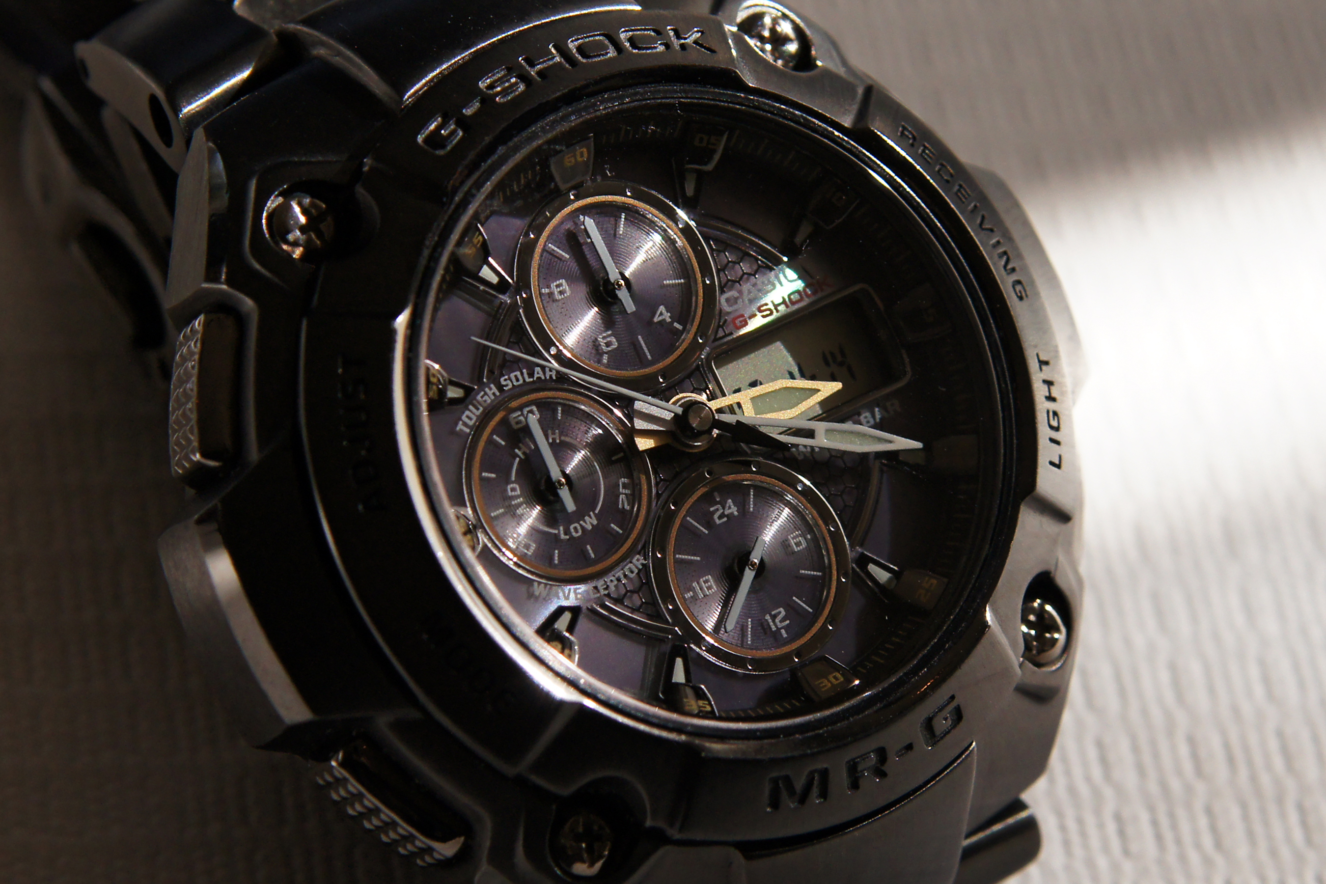 Casio G-SHOCK MR-G The G MRG-7100BJ-1AJF